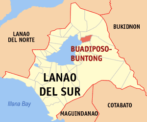 Map of the Lanao del Sur showing the location of Buadiposo-Buntong